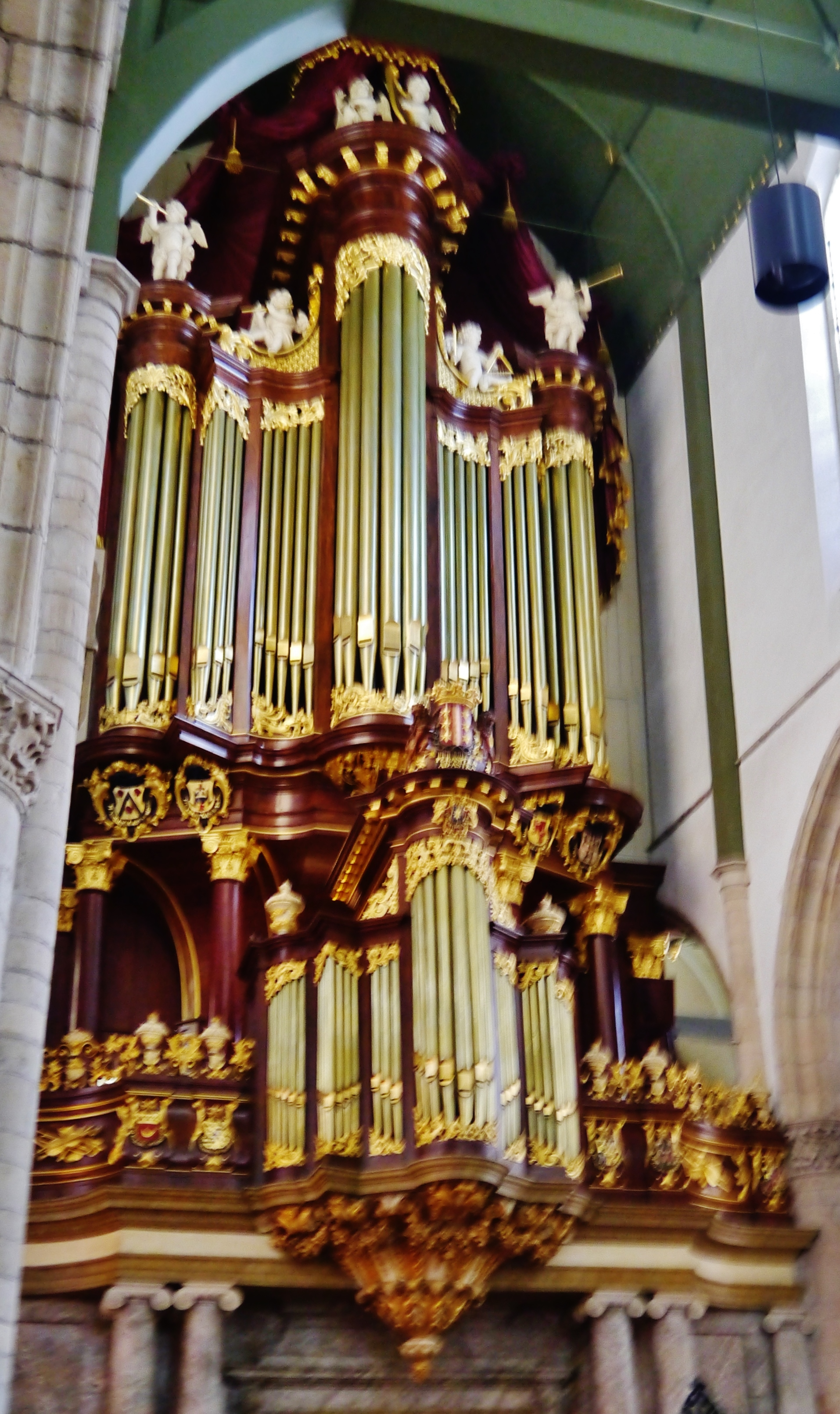 Organ of the Grand Church of St. John, Gouda, Province of South Holland, Netherlands